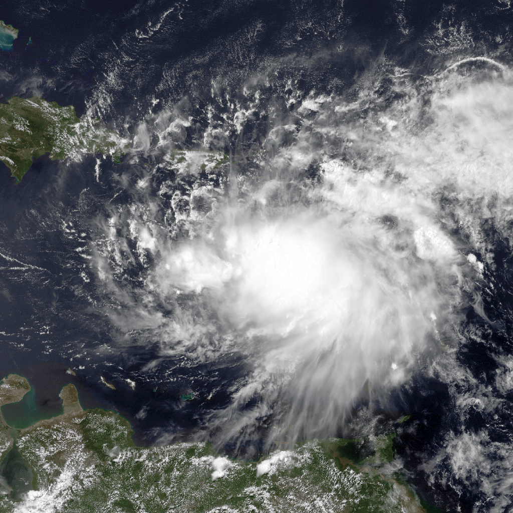 Tropical Storm Emily in the Caribbean on August 2, 2011.